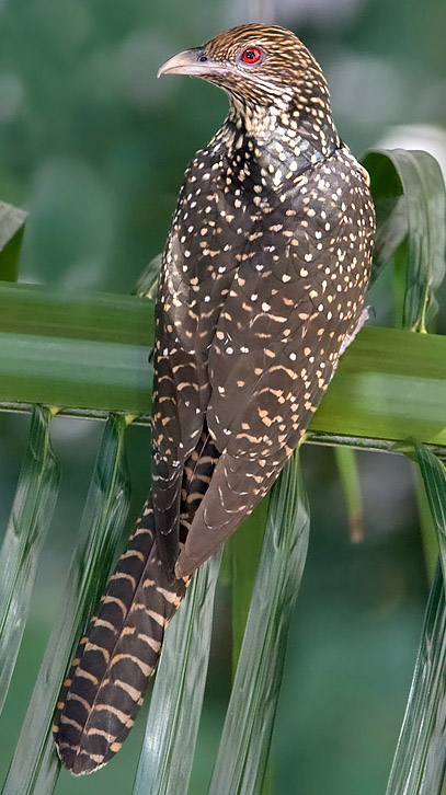 Asian Koel or Common Koel